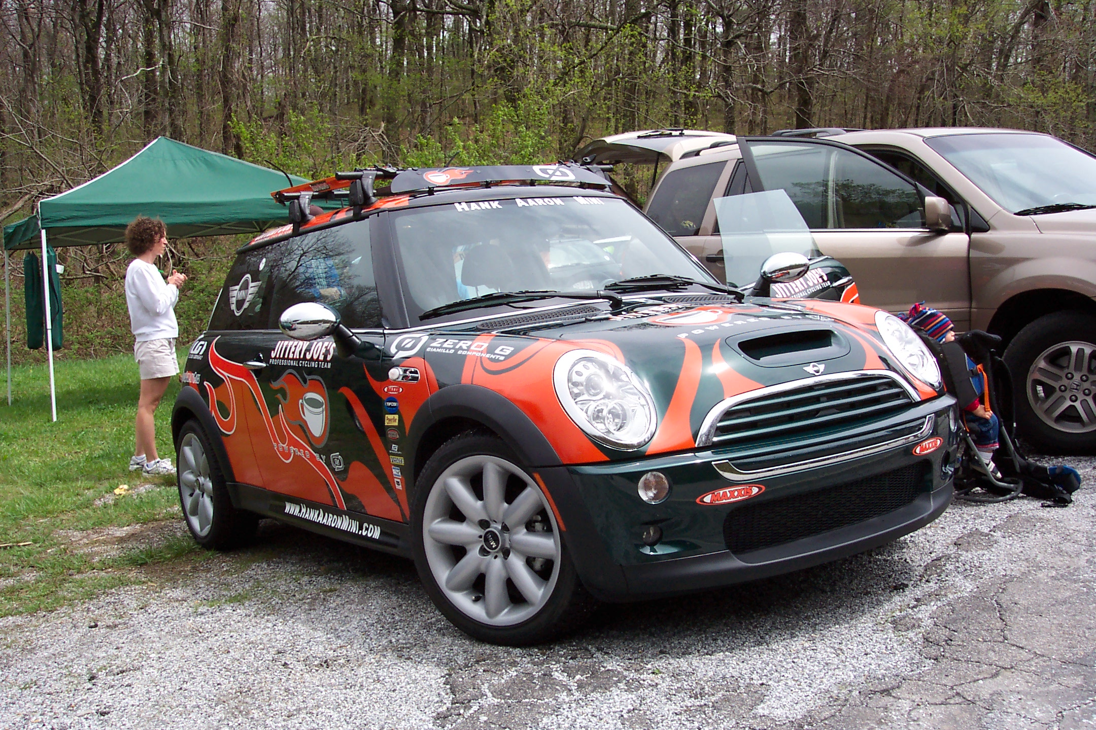 A Mini Cooper decorated in Jittery Joe's logos at the Tour de Georgia bike race. I am the author of this photograph and release it to public domain.